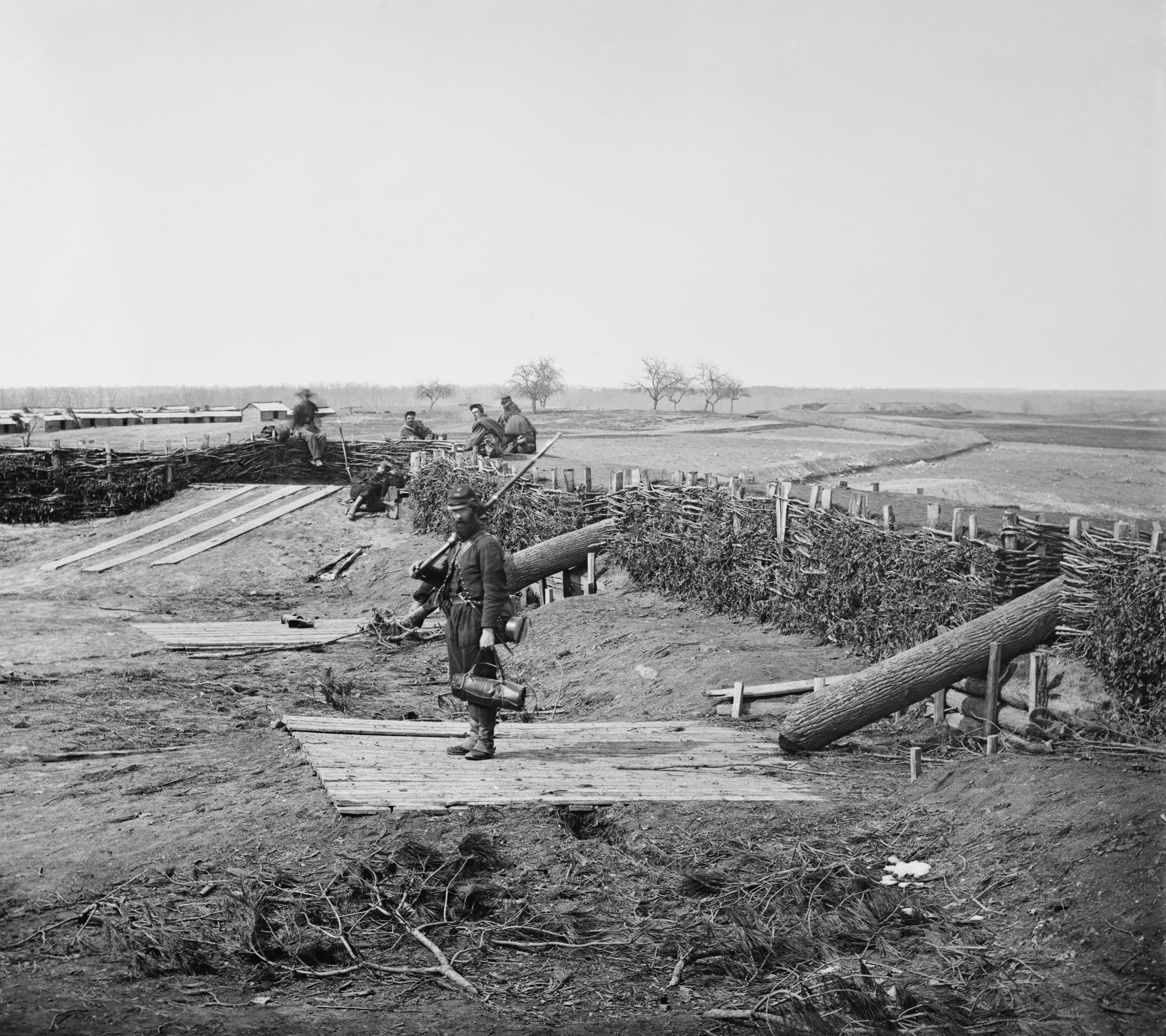 Photograph from the main eastern theater of war, Confederate winter quarters, 1861-1862.